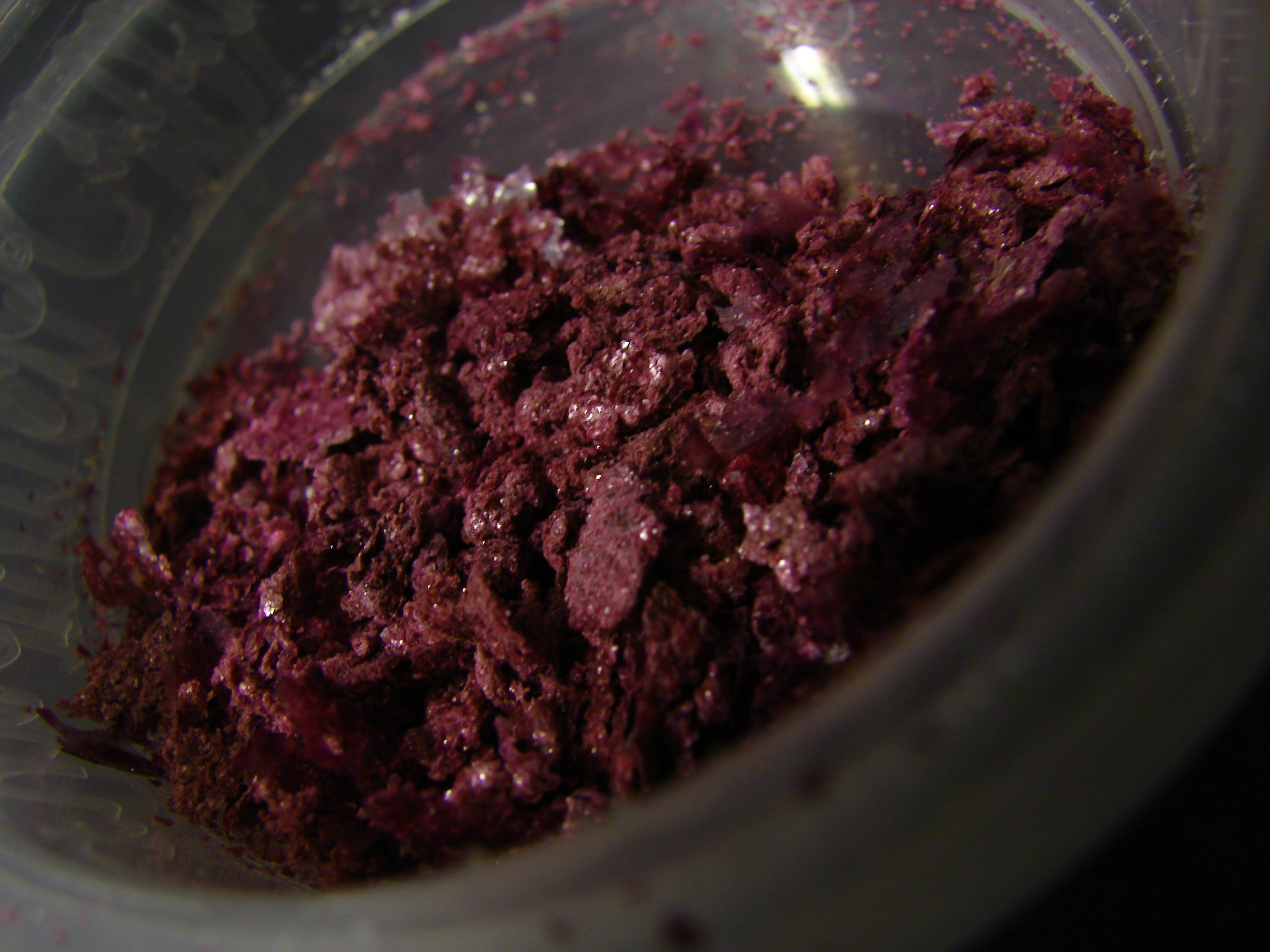 Photo taken by me in September, 2006.